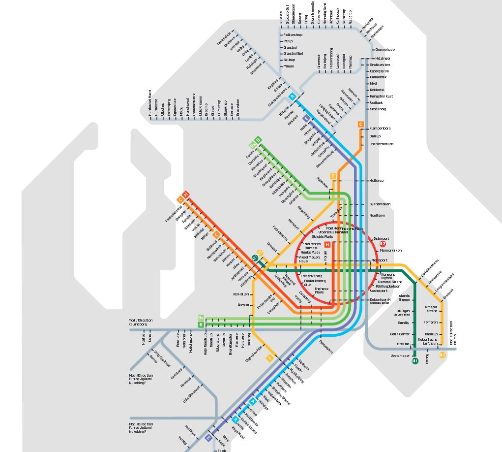 S-train lines, Metro lines and ocher railway lines inside and around Copenhagen. Updated after the opening of the M3 line